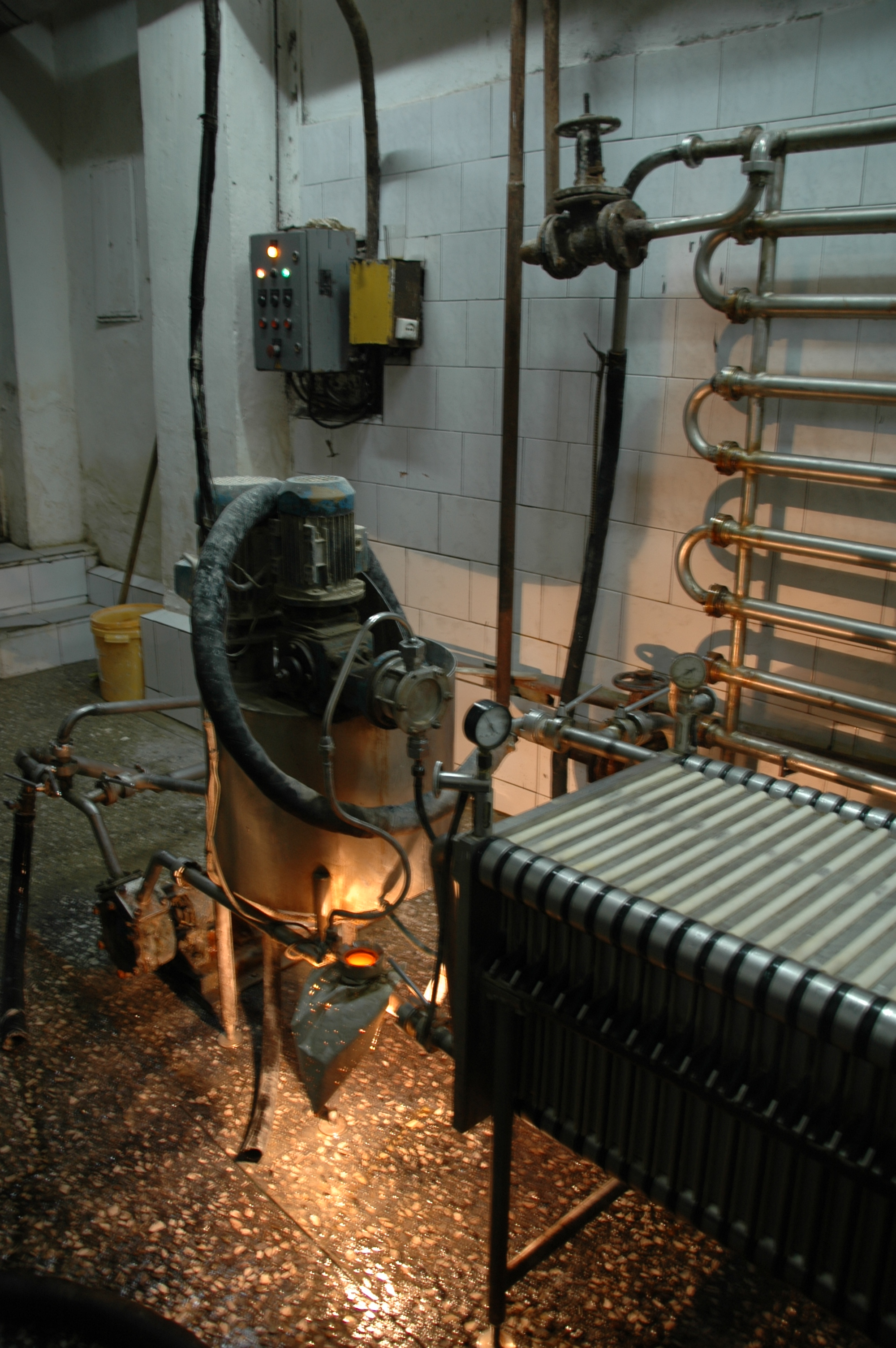 Plate filter press in brewery